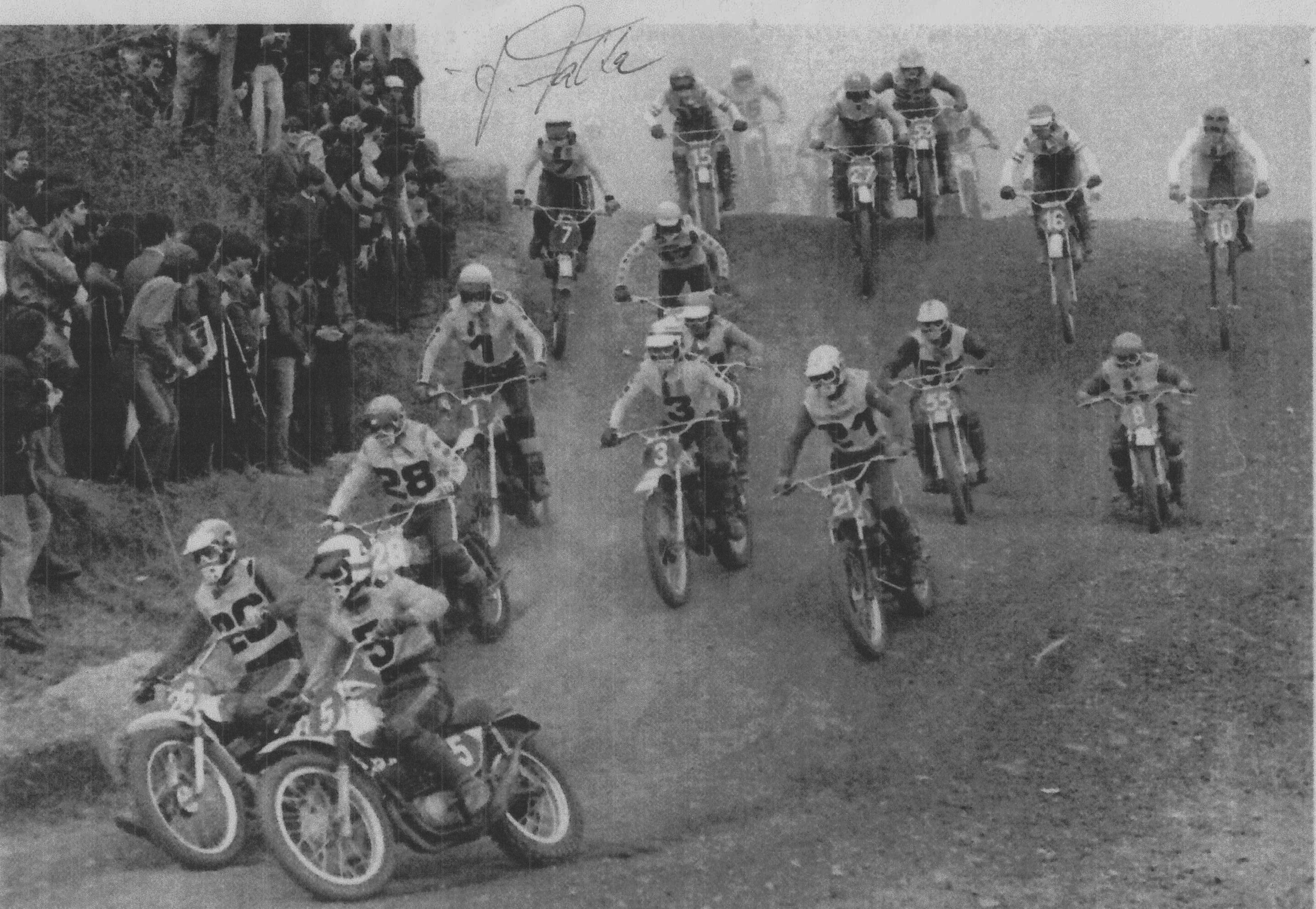 1973 Spanish Grand Prix 250cc. Race start (first moto). 26-Jim Pomeroy (Bultaco), 5-Herbert Schmitz (Maico), 28-Kalevi Vehkonen (Montesa), 21-Domingo Gris (Bultaco), 3-Gaston Rahier (Suzuki), 37-Jo Lammers (Montesa), 1-Joël Robert (Suzuki), 7-Marcel Wiertz (Bultaco), 55-Evgeny Ribaltchenko (CZ), 8-Harry Everts (Puch), 16-Uno Palm (Puch), 15-Jaroslav Falta (CZ) signed by himself above, 27-Heikki Mikkola (Husqvarna), 53-Alexej Kibirin (CZ), 16-Jiri Churavy (CZ), 10-Olle Pettersson (Kawasaki)